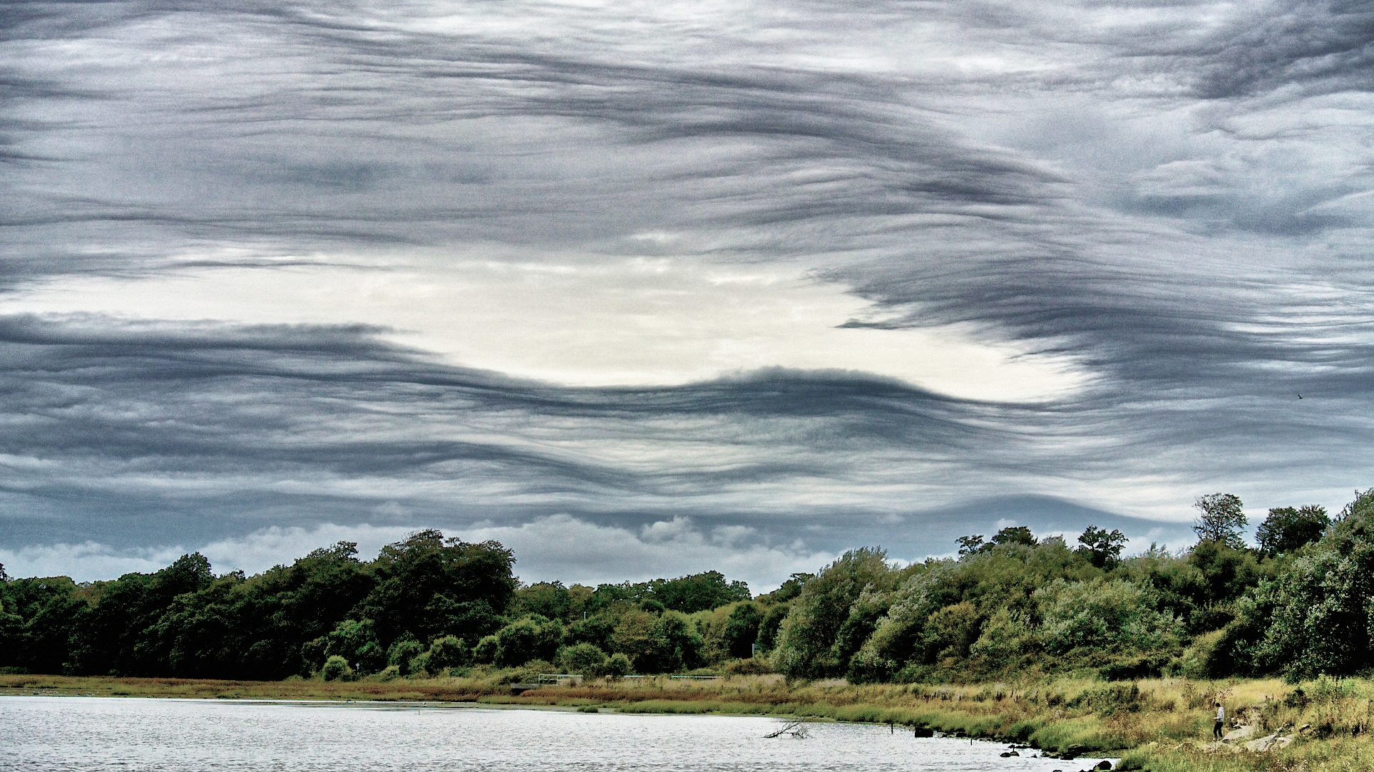 I went for a bracing walk around Poole Quay and then Holes Bay this morning. The wind was working itself up and there were some very interesting cloud formations. Rain is on its way methinks....